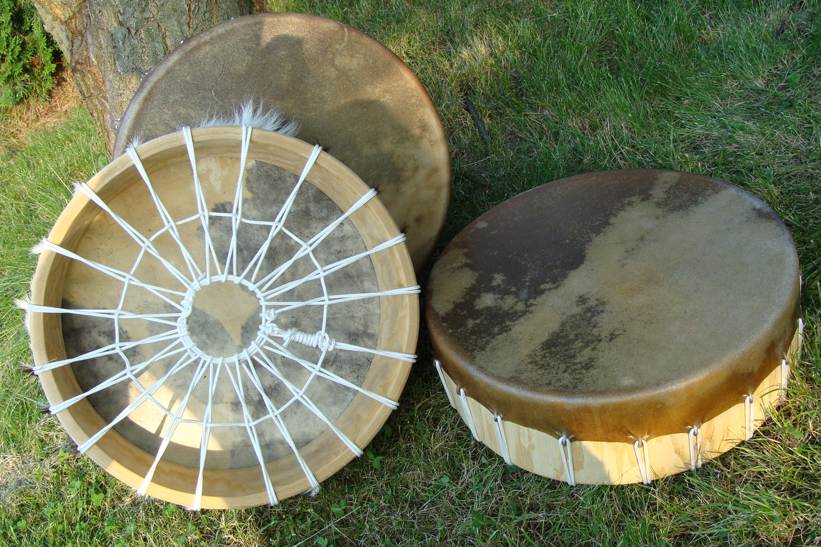 Współcześnie wykonane bębny szamańskie